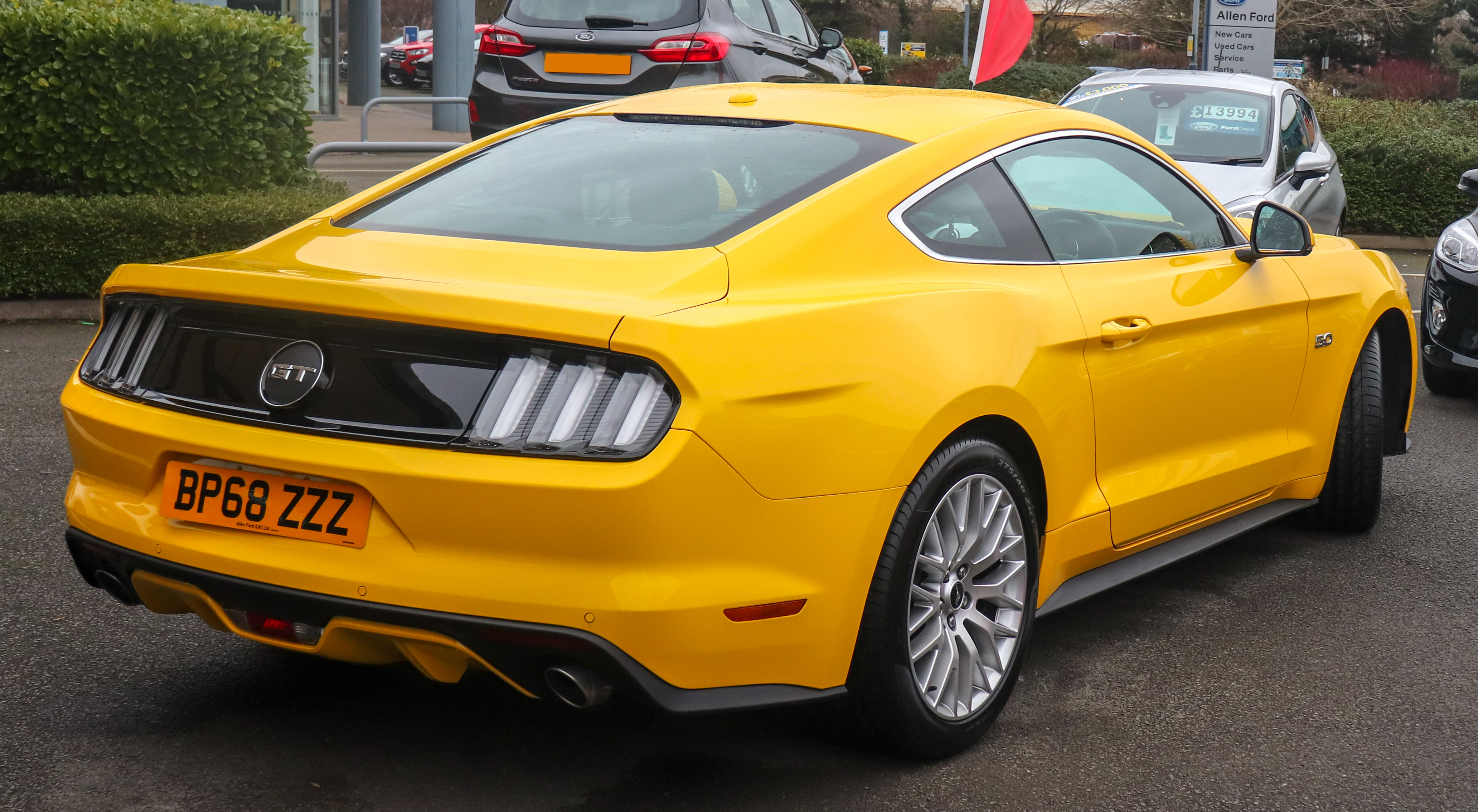 2018 Ford Mustang GT 5.0 Rear Taken in Leamington Spa